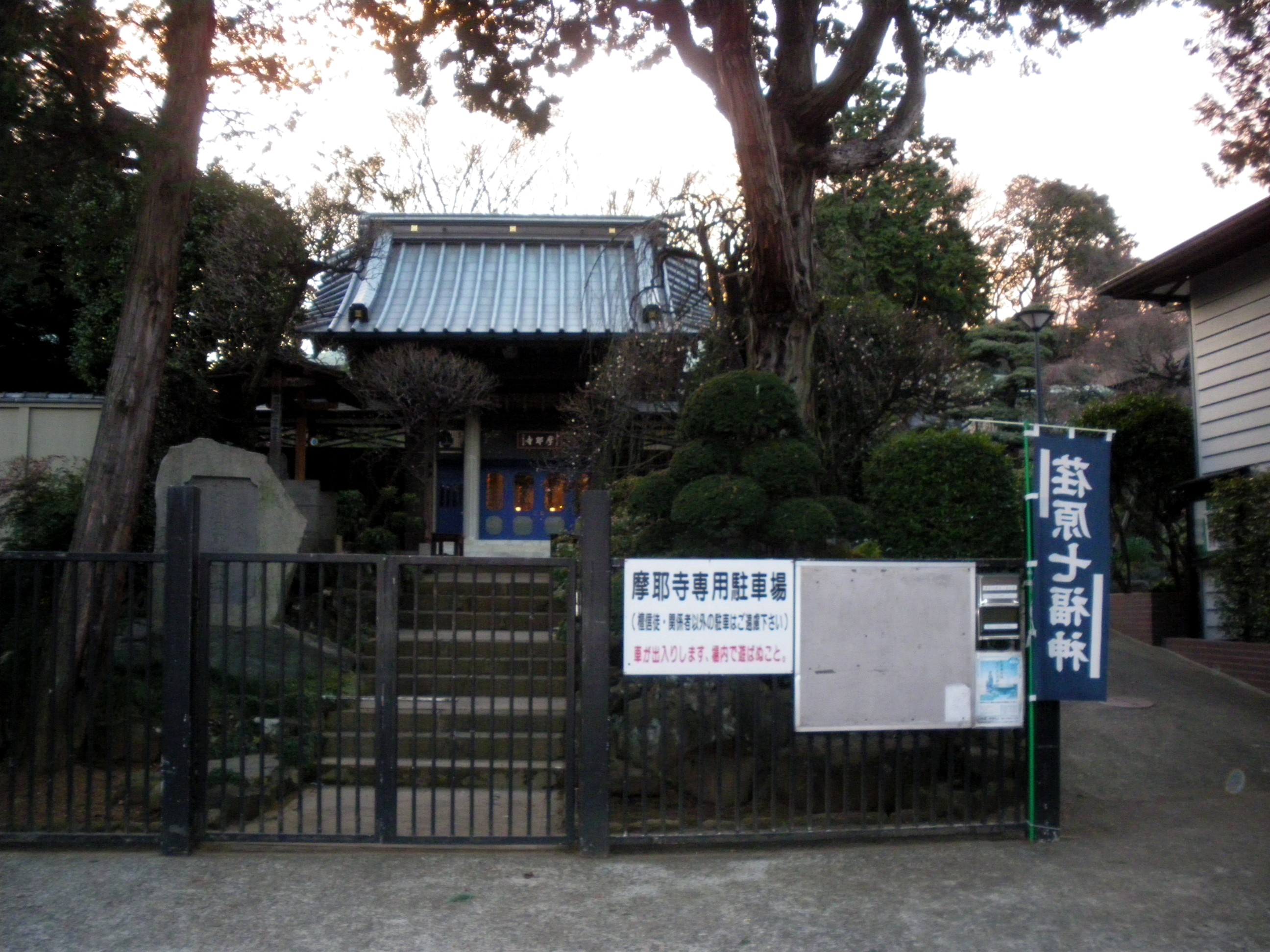 A photo of Maya-ji(temple),koyama Shinagawa-ku,Tokyo,Japan.